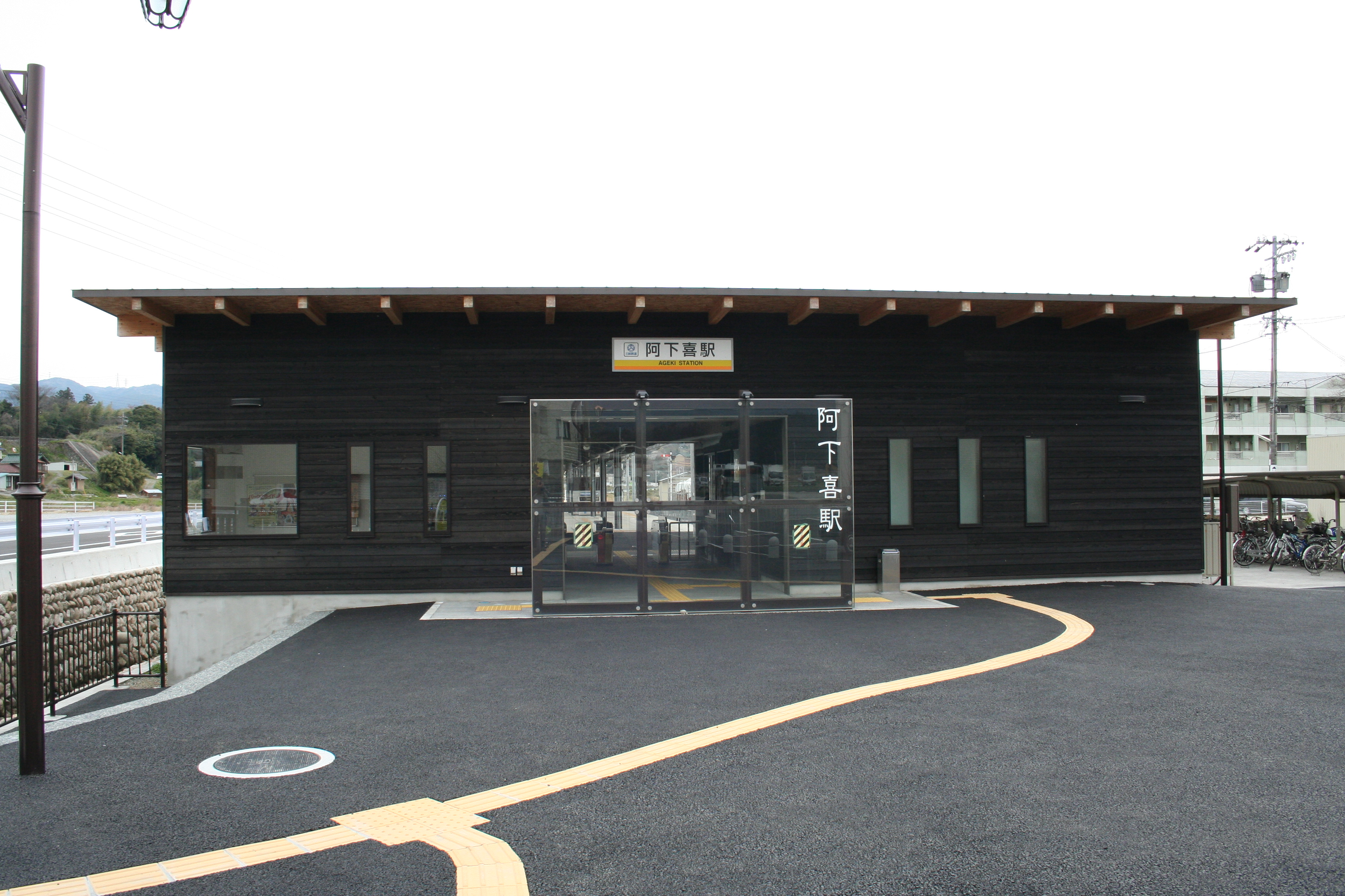 Ageki Station building, terminus of the Hokusei Line.